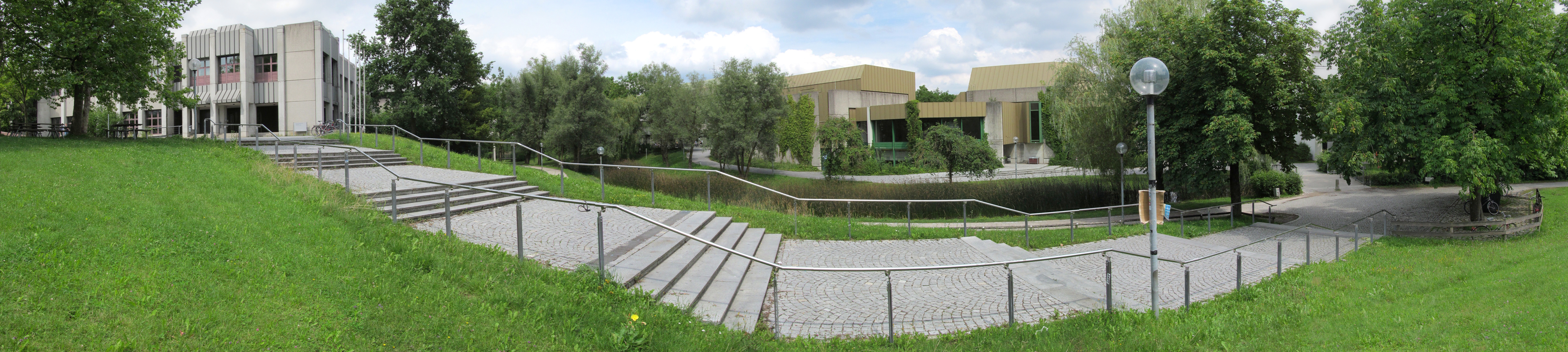 Terrain of University Augsburg.